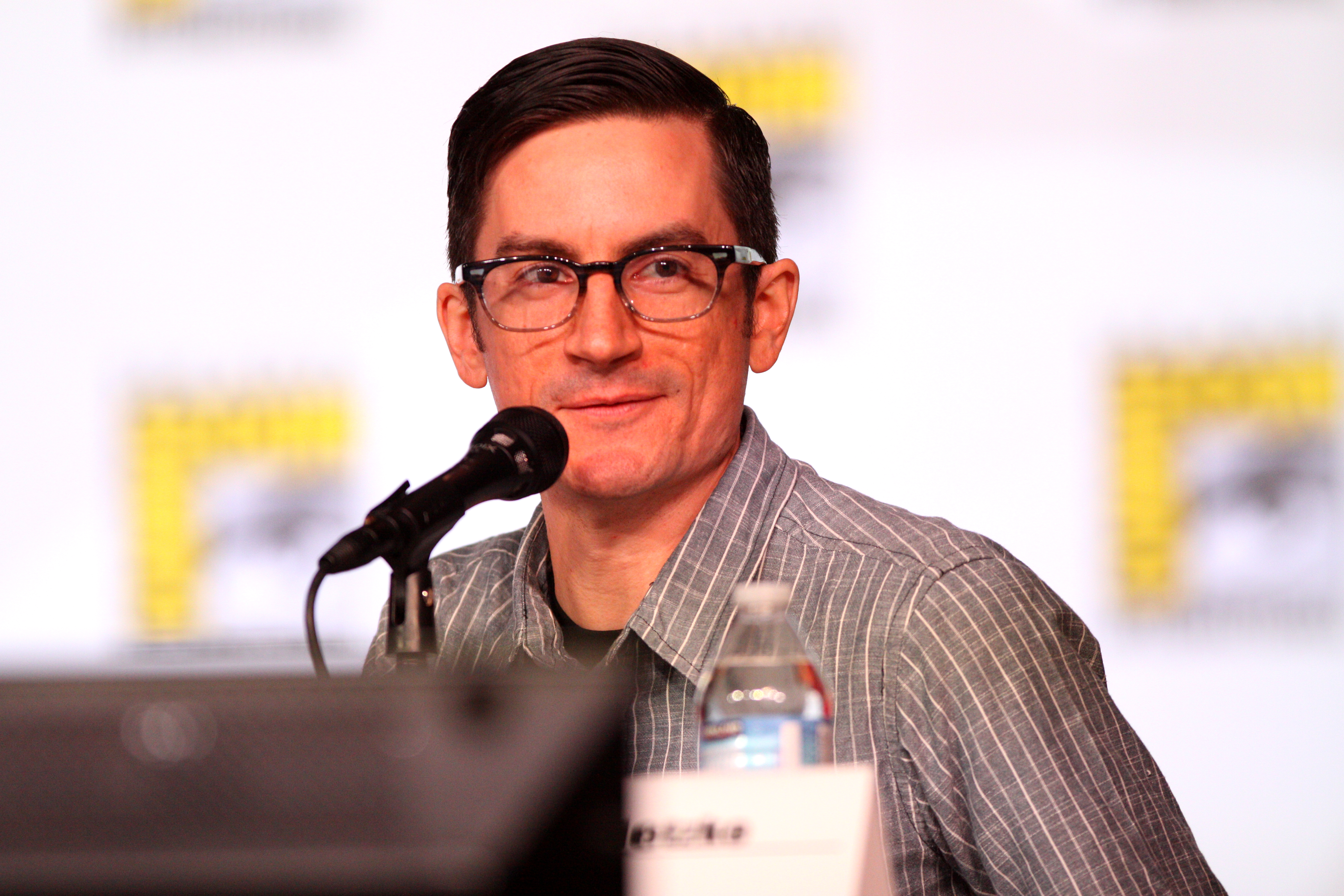 Bryan Konietzko speaking at the 2012 San Diego Comic-Con International in San Diego, California.